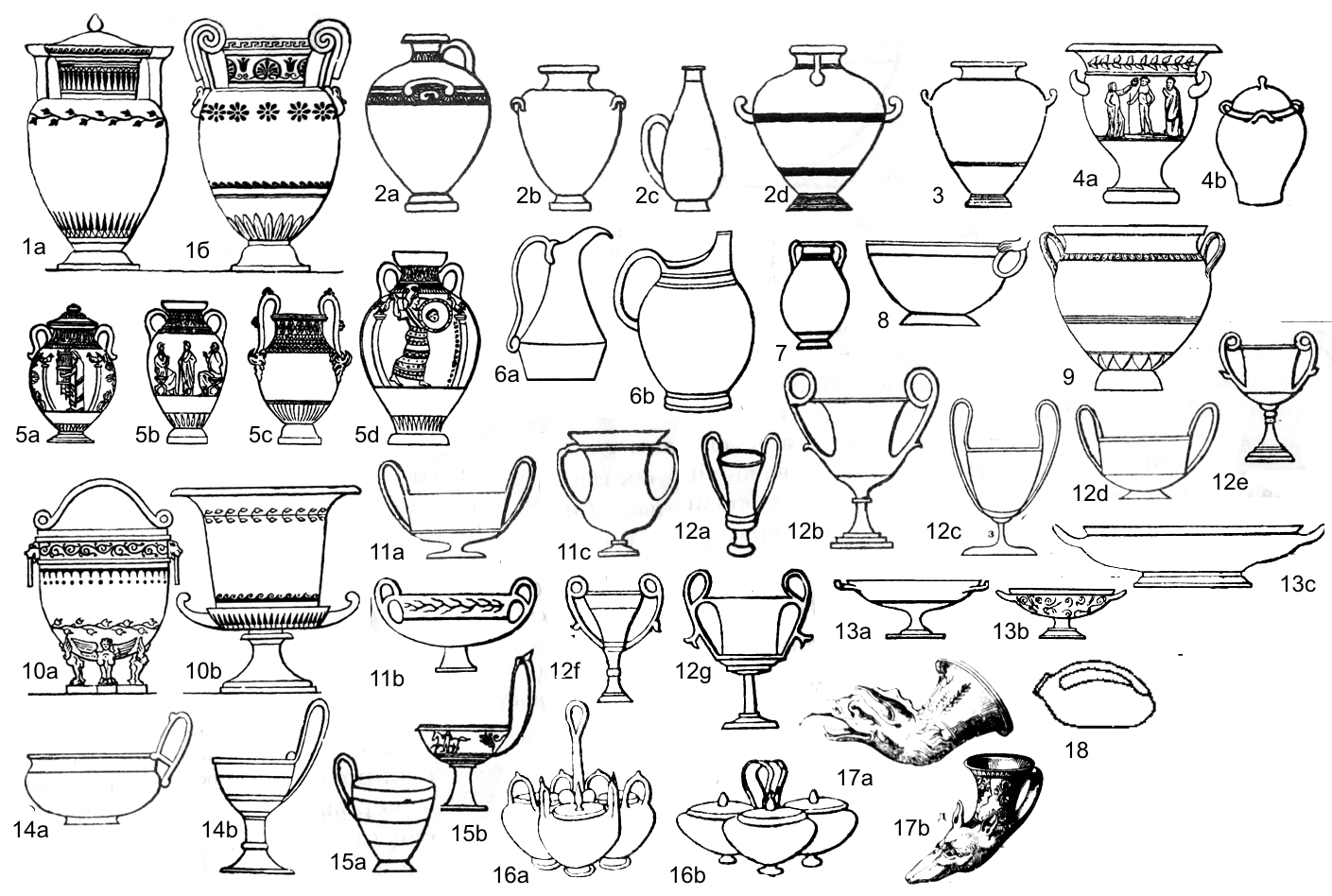 Ancient Greek pottery by shape: 1а, 1b - amphora; 2 - hydria (2a, 2b - standart, 2c - hydrisk, 2d - konis); 3 - stamnos, 4a, 4b - krossos, 5 - panathenaic amphorae, 6 - oenochoe, 7 - pelike, 10 - krater, 11 - karcesion, 12 - kantharos, 13 - kylix, 14 - сotyla, 15 - kyathos, 16 - kylix, 17 - rhyton, 18 - askos.